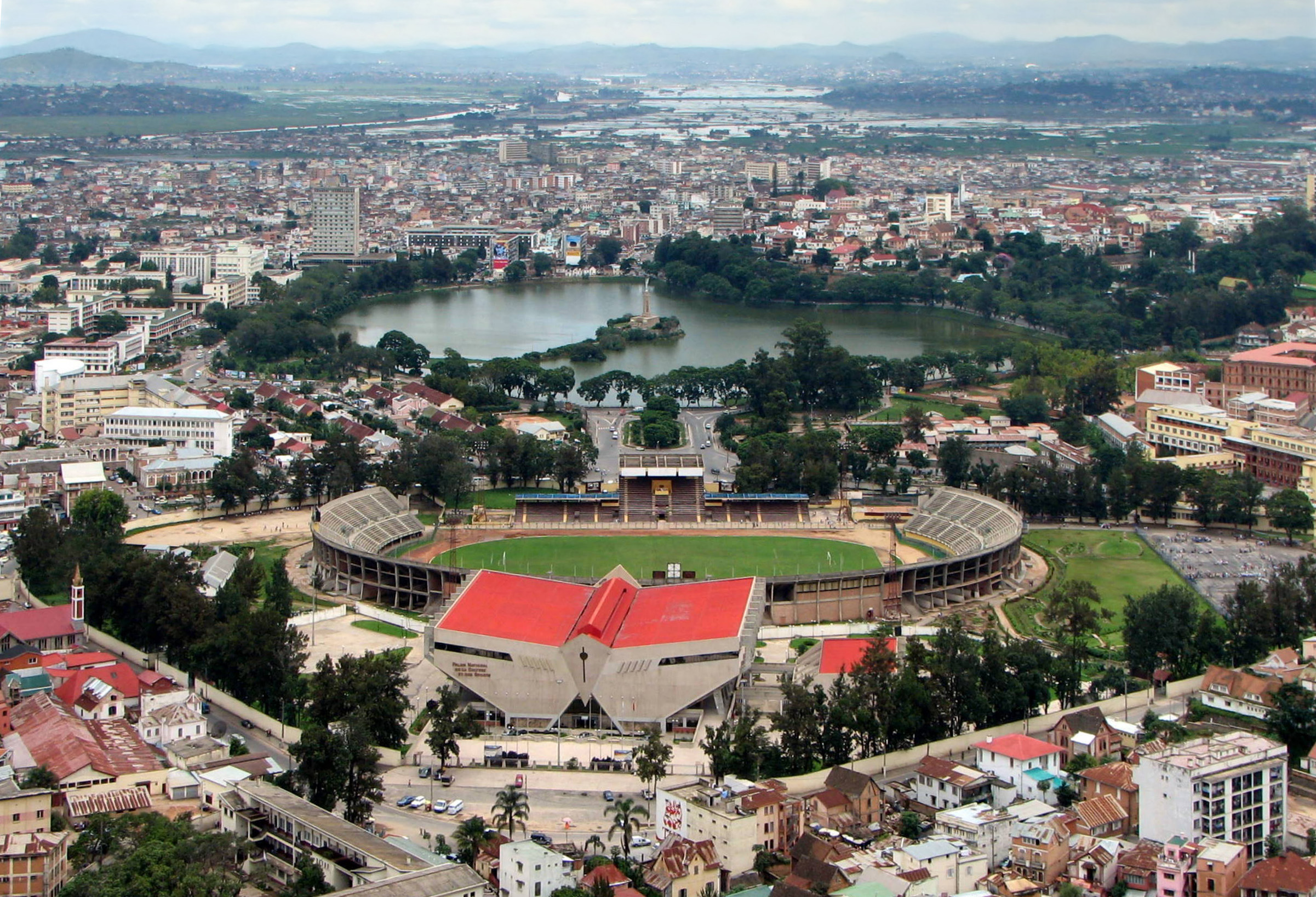 Antananarivo - Mahamasima Stadium and Anosy lake, Madagascar